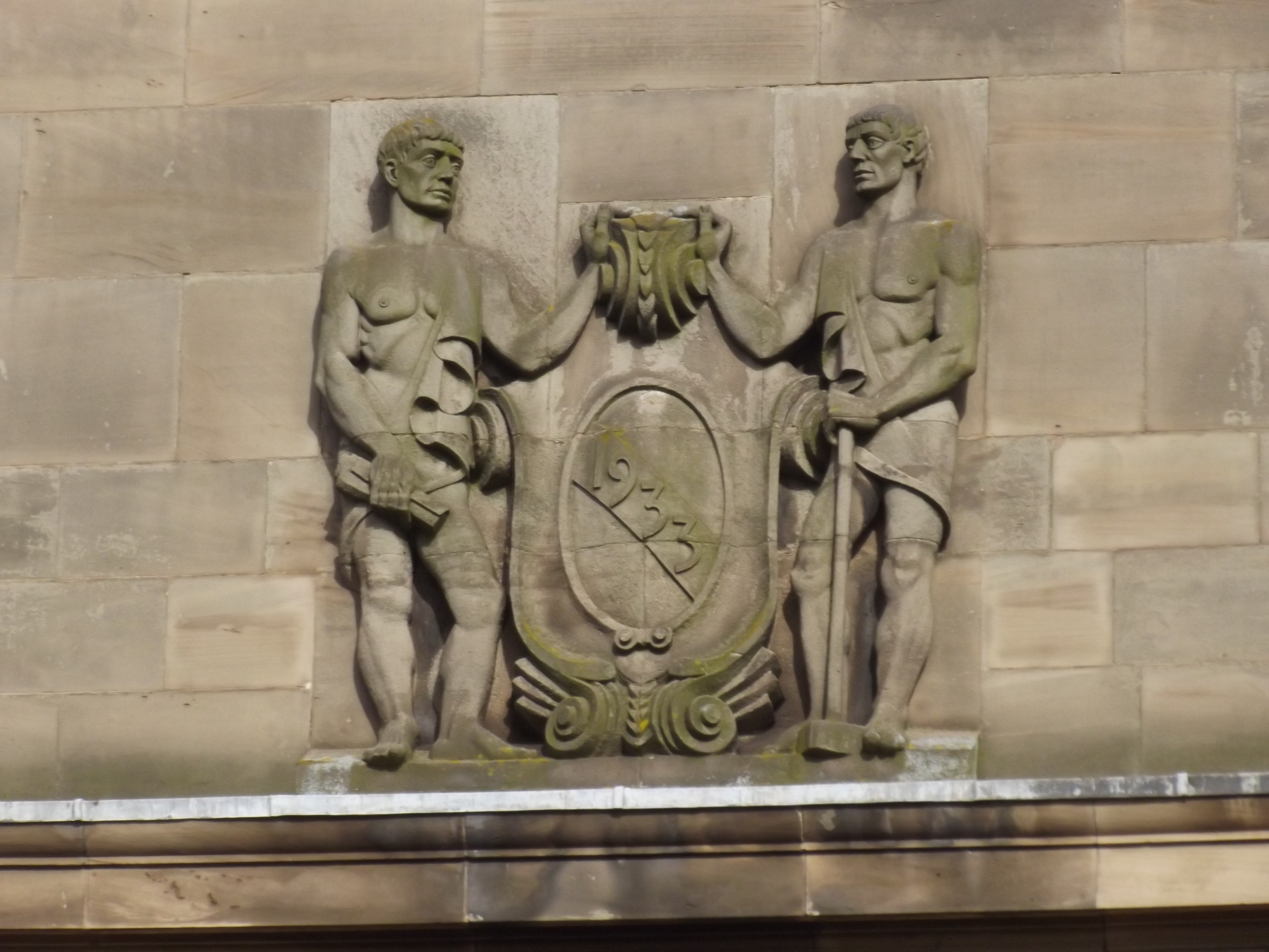 The main University of Wolverhampton building as seen on Wulfruna Street in Wolverhampton. It is opposite St Peter's Collegiate Church. Construction started in 1931. Was finished / opened in 1933. This building was originally built as the Wolverhampton and Staffordshire Technical College. Foundation stone laid in 1931 by HRH Prince George. In the University Quarter - City Campus Wulfruna.